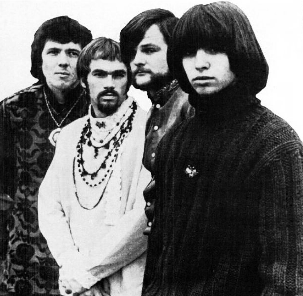 Trade ad for Iron Butterfly's single "In-A-Gadda-Da-Vida".To better adapt it to his respective Wikipedia article, the ad was cropped and cleaned in a graphics editing program. The original can be viewed at the source below.